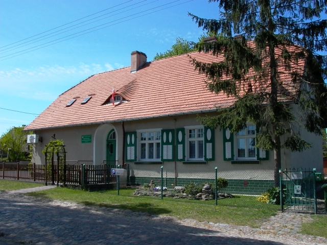 Chiropterological Scientific Station in Nietoperek, Poland.